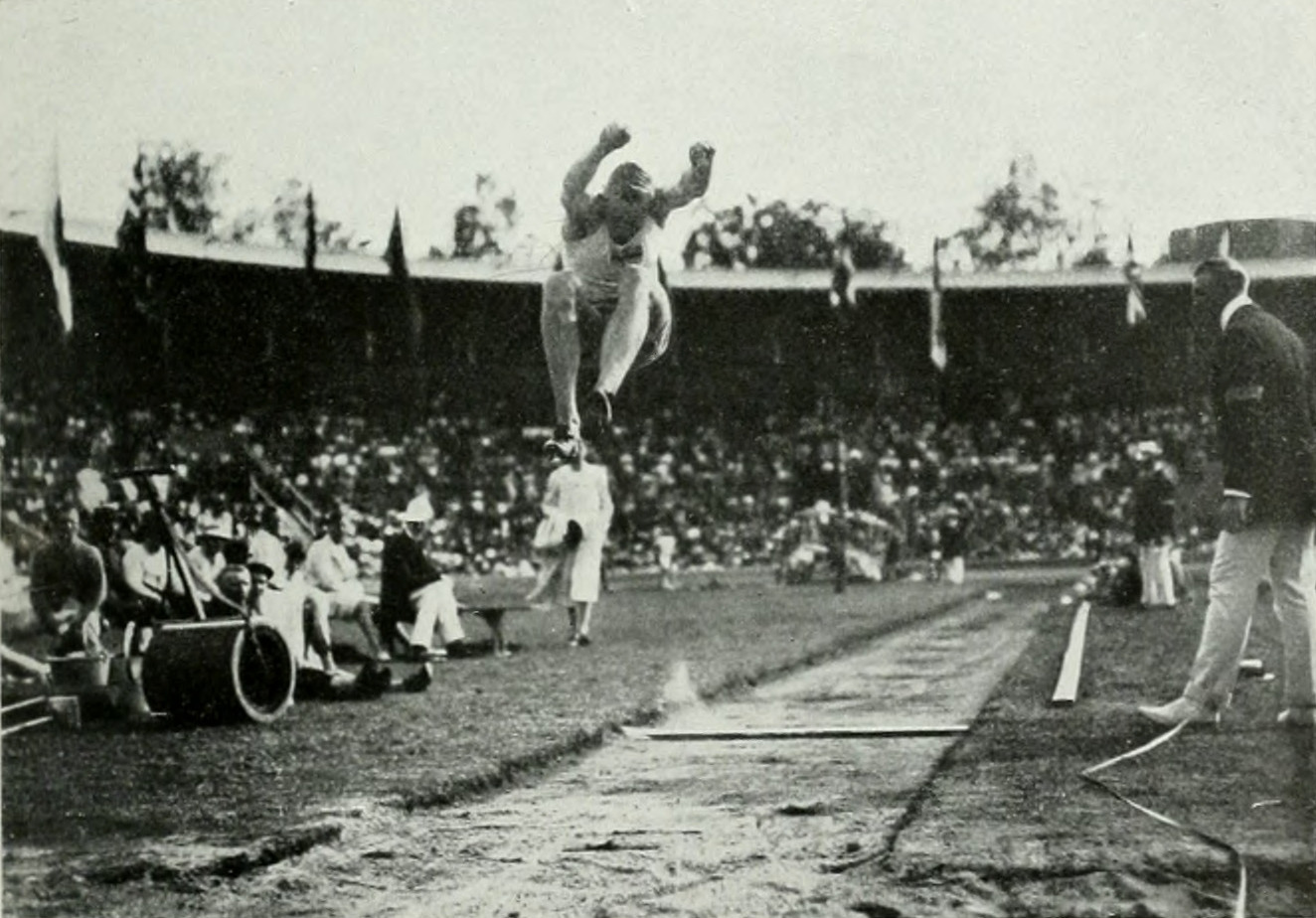 Georg Åberg during the long jump competition at the 1912 Summer Olympics